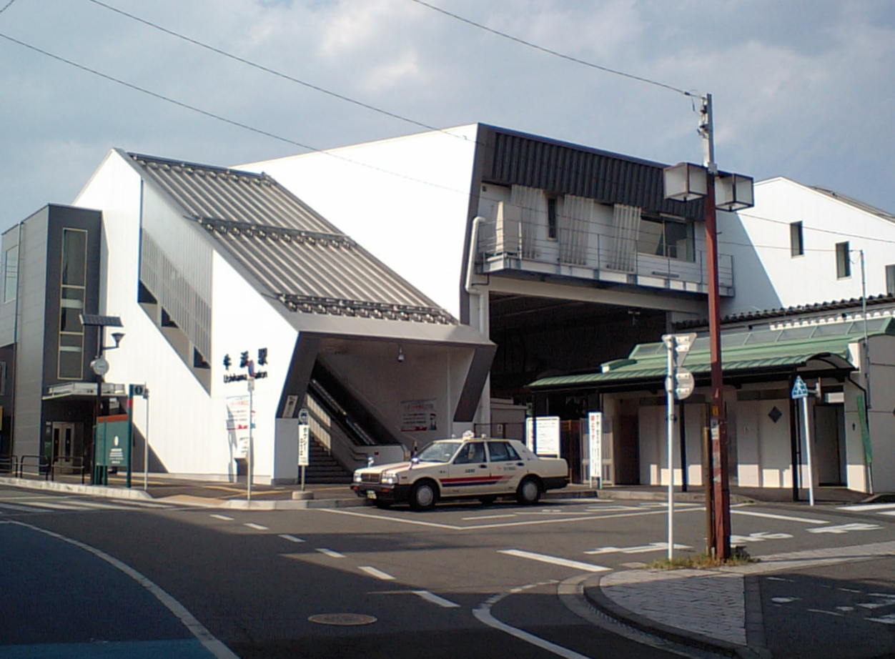 The west entrance to Ushihama Station in Fussa-shi, Tokyo, Japan